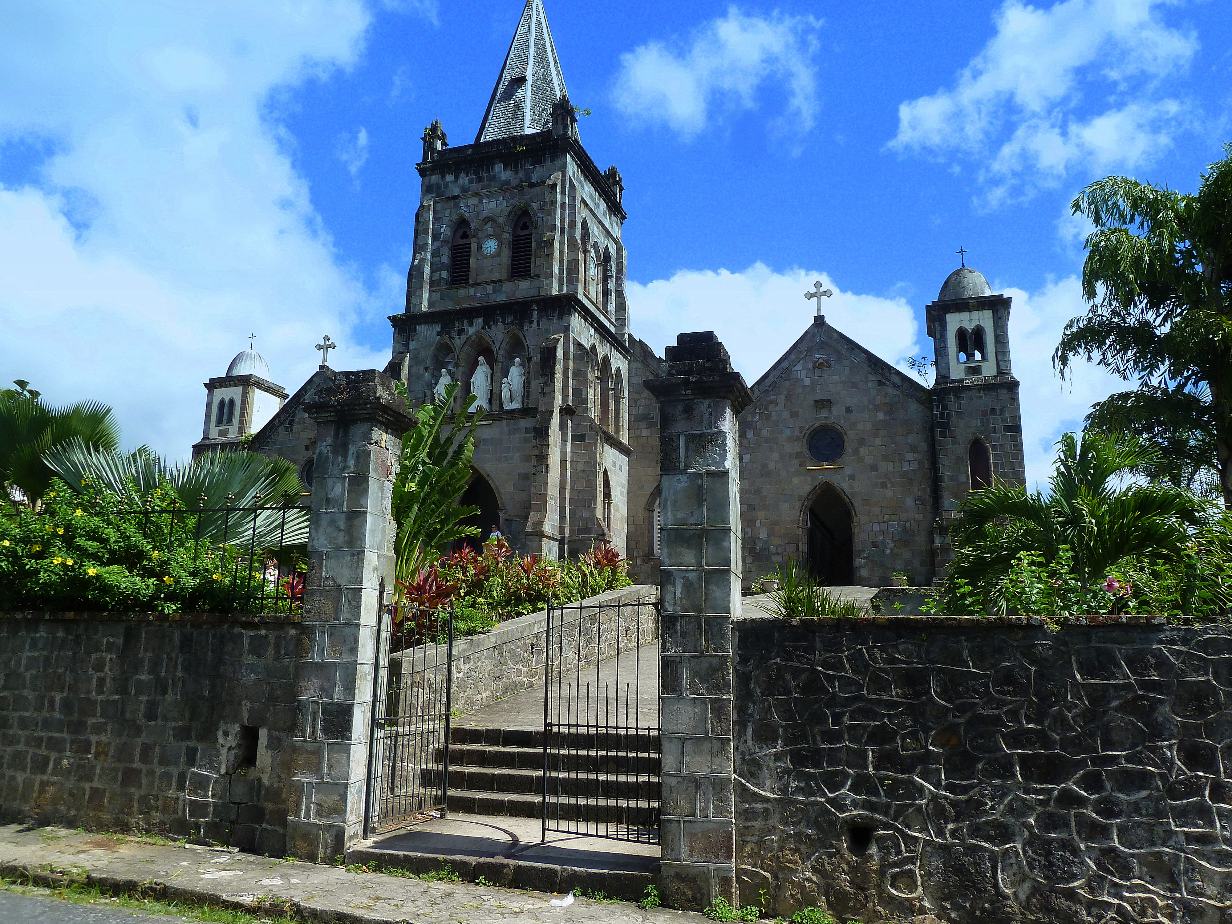 Roseau Virgin Ln - Our Lady of Fair Haven Cathedral